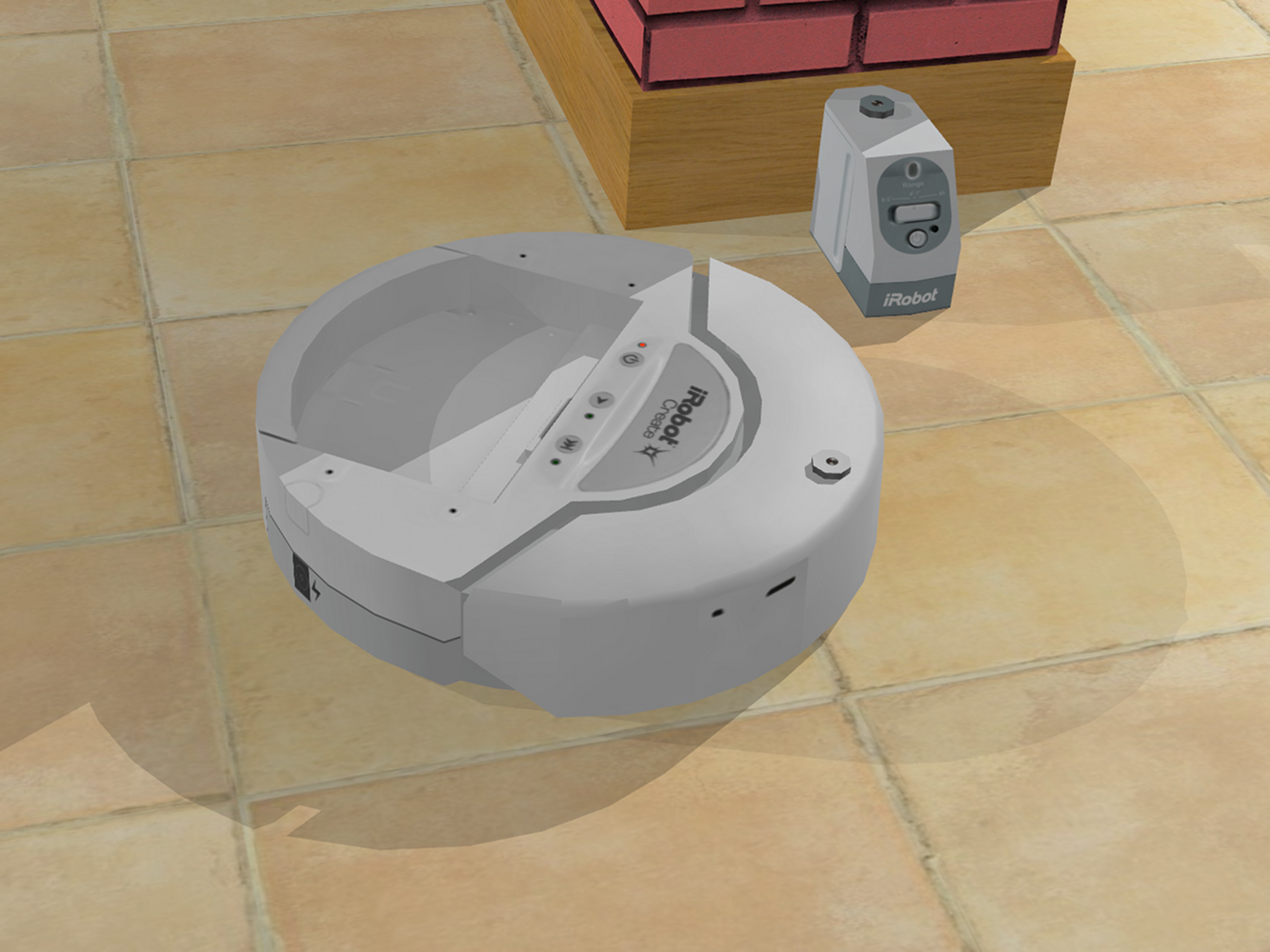 Virtual 3D model of an iRobot Create and of its virtual wall in Webots (robotics simulator).